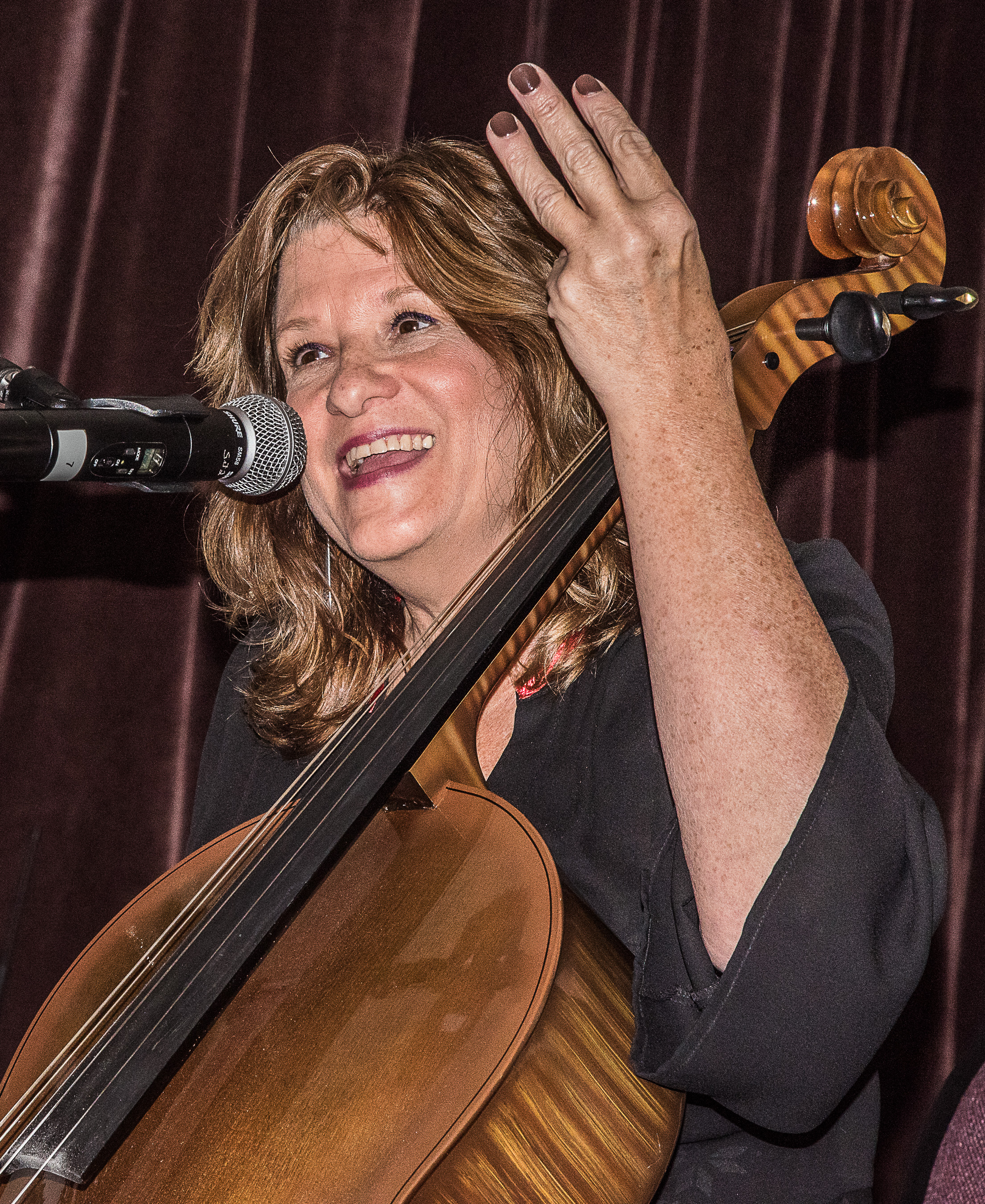 Highlighting the Ft. Meade annual American Indian Heritage Month grammy award musician Dawn Avery of the Mohawk Nation.